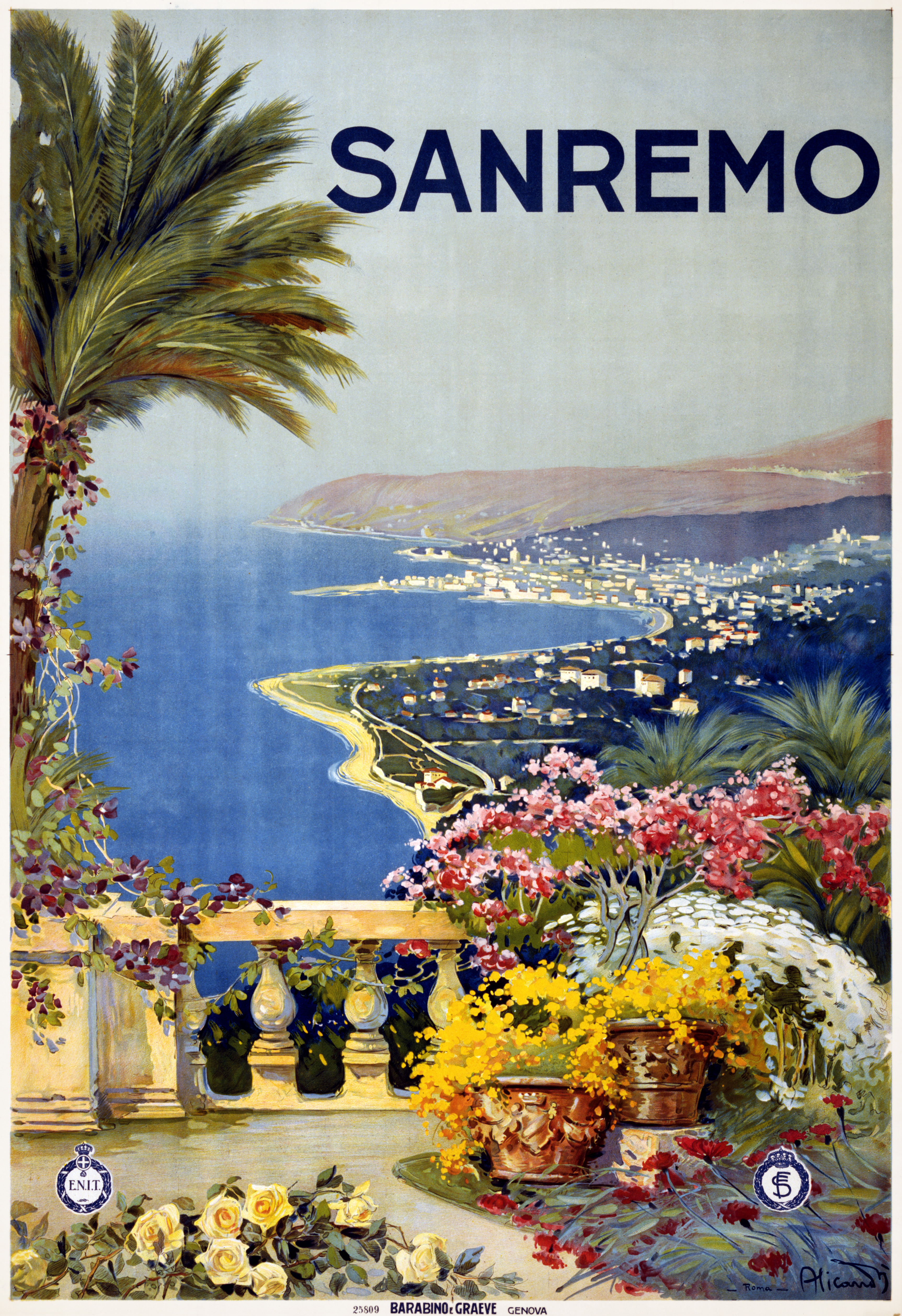 San Remo. Travel poster by Vincenzo Alicandri shows the coastline of San Remo from a terrace. Print by Barabino e Graeve, Genova, for ENIT (Ente Nazionale Italiano per il Turismo), ca. 1920. From the Artist Posters Collection at the Library of Congress More ENIT travel posters | More artist posters [PD] This picture is in the public domain in the United States.